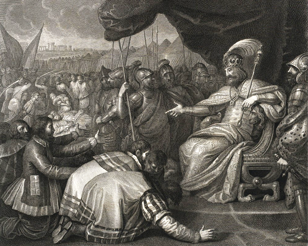 Mieszko II subjugating Pomeranians